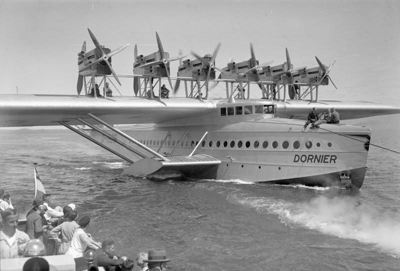 The Dornier Do X photographed under tow on Lake Constance, Germany